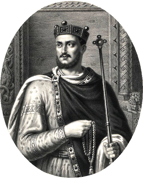 Mieszko II Lambert